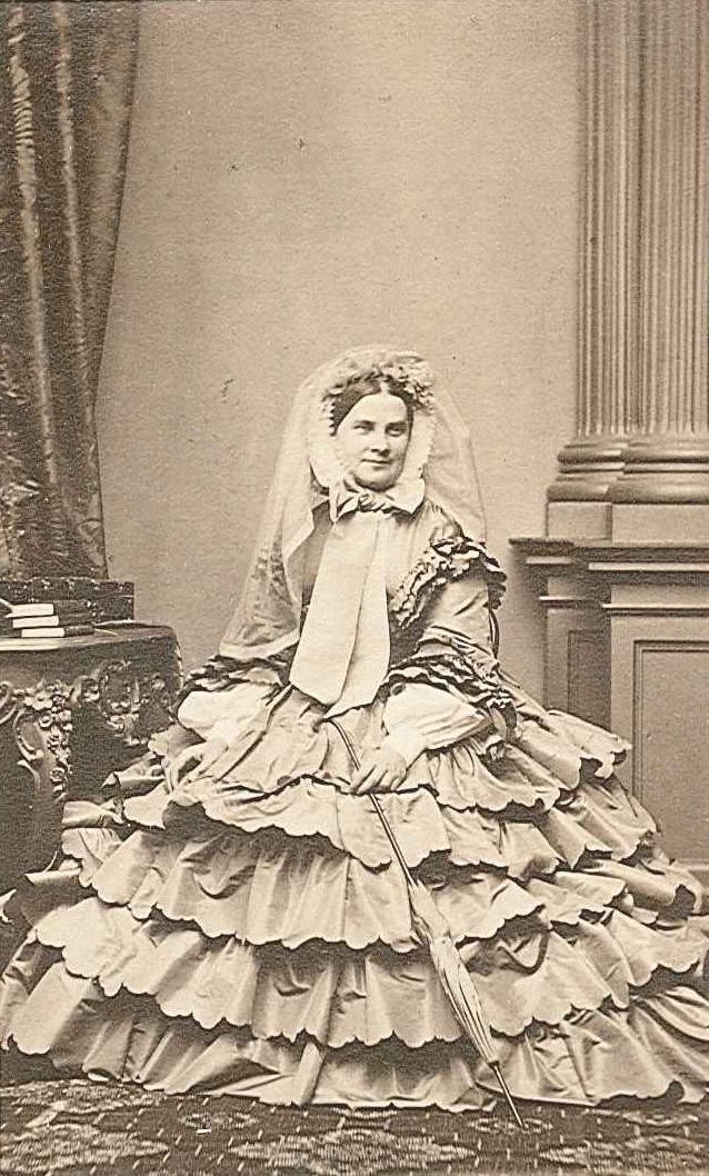 Princess Hildegard of Bavaria (1825-1864), Archduchess of Austria